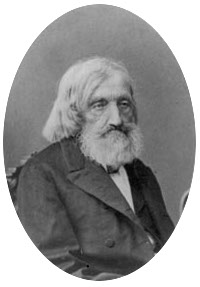 Karl Ernst von Baer in old age.